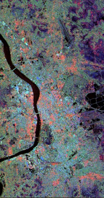 This radar image of Calcutta, India, illustrates different urban land use patterns. Calcutta, the largest city in India, is located on the banks of the Hugli River, shown as the thick, dark line in the upper portion of the image. The surrounding area is a flat swampy region with a subtropical climate. As a result of this marshy environment, Calcutta is a compact city, concentrated along the fringes of the river. The average elevation is approximately 9 meters (30 feet) above sea level. Calcutta is located 154 kilometers (96 miles) upstream from the Bay of Bengal. Central Calcutta is the light blue and orange area below the river in the center of the image. The bridge spanning the river at the city center is the Howrah Bridge which links central Calcutta to Howrah. The dark region just below the river and to the left of the city center is Maidan, a large city park housing numerous cultural and recreational facilities. The international airport is in the lower right of the image. The bridge in the upper right is the Bally Bridge which links the suburbs of Bally and Baranagar. This image is 30 kilometers by 10 kilometers (19 miles by 6 miles)and is centered at 22.3 degrees north latitude, 88.2 degrees east longitude. North is toward the upper left. The colors are assigned to different radar frequencies and polarizations as follows: red is L-band, horizontally transmitted and received; green is L-band, horizontally transmitted and vertically received; and blue is C-band, horizontally transmitted and vertically received. The image was acquired by the Spaceborne Imaging Radar-C/X-band Synthetic Aperture Radar (SIR-C/X-SAR) on October 5, 1994, onboard the Space Shuttle Endeavour. SIR-C/X SAR, a joint mission of the German, Italian and United States space agencies, is part of NASA's Mission to Planet Earth program. The original image has been rotated 90 degrees counter-clockwise.